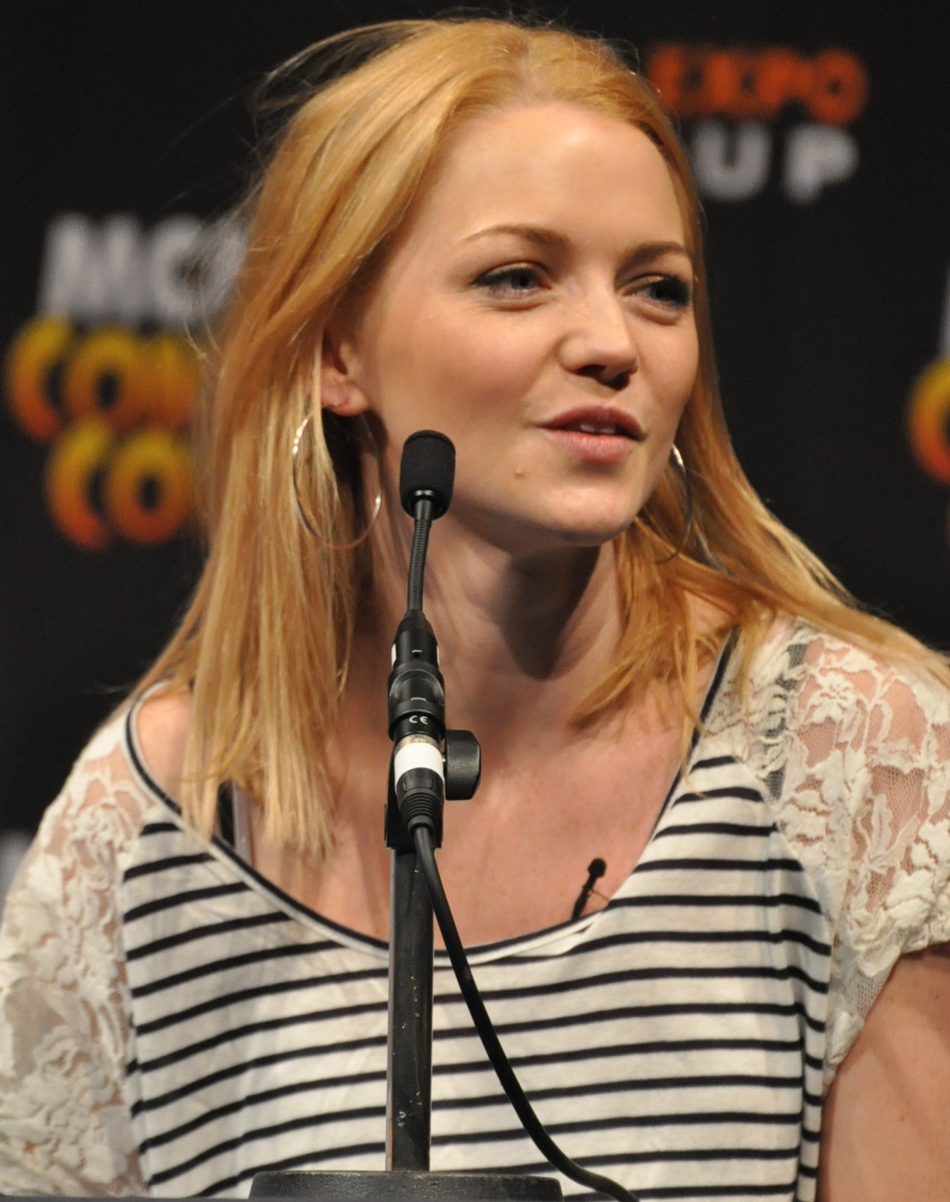 The following is the author's description of the photograph quoted directly from the photograph's Flickr page.